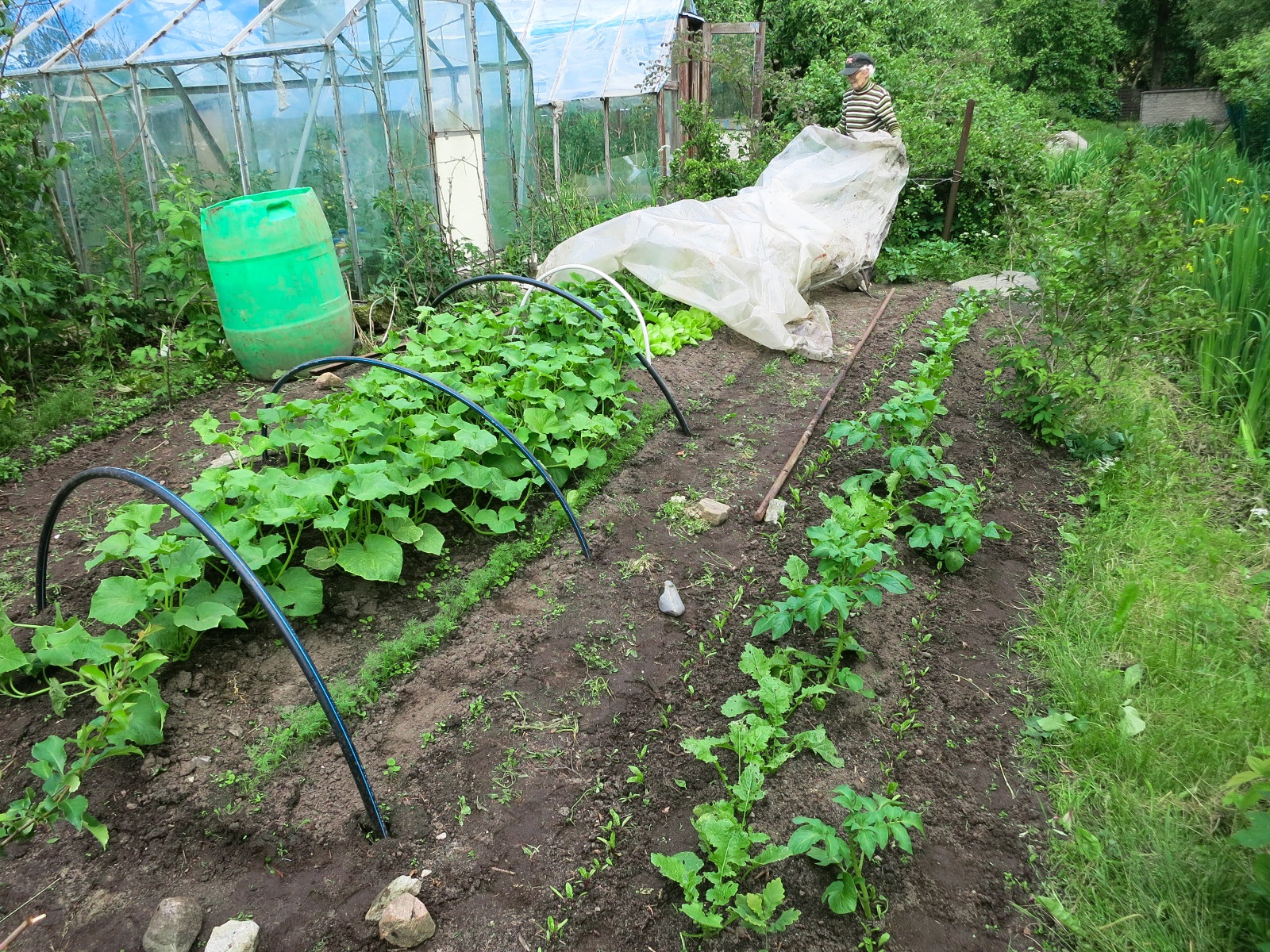 87-year-old gardener is taking off plastic film from her cucumber hotbed, to make the cucumber flowers available for pollinators. Dill (right) and lettuce are also sown to this hotbed. Two rows of beetroots (very small), some potatoes, and ripe radish (a row between the beetroots) are growing right from the hotbed. (Harju County, Estonia)